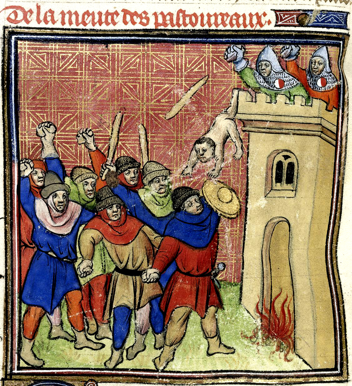 Peasants burning down the tower of Verdun-sur-Garonne in Languedoc, France, where five hundred Jews are hiding, during the The Shepherds' Crusade (1320). A baby is thrown from the burning tower.